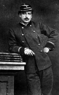 Ltnt Juan G. Matta, dressed with the Atacame Rgt. uniform. Picture probably taken around 1879, in Copiapo, before his departure to the war zone.